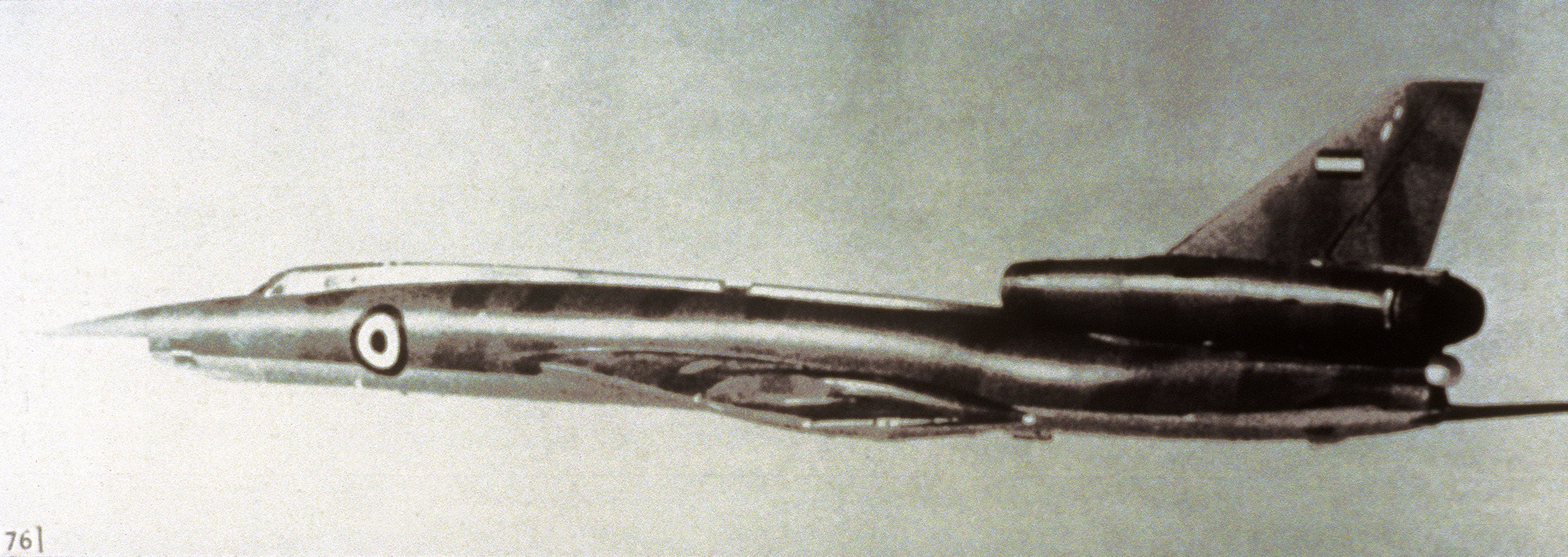 Libyan Tu-22 'Blinder' bomber.